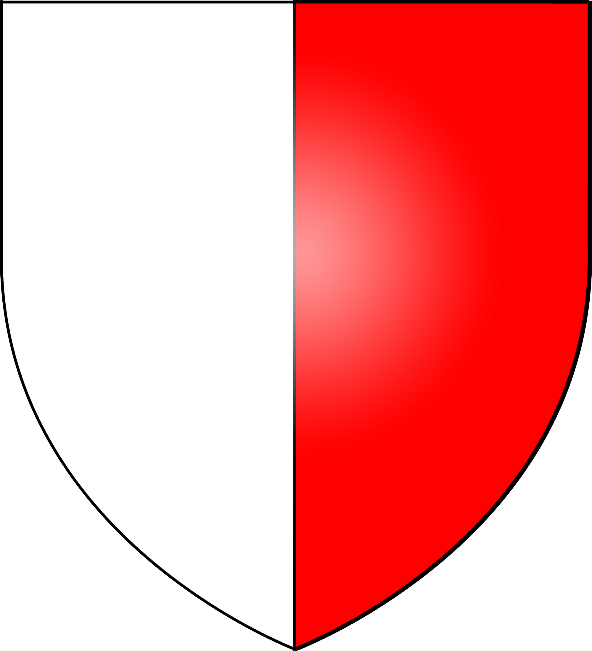 As described in Peerage of England, genealogical, biographical, and historical: Party per pale, Argent and Gules.